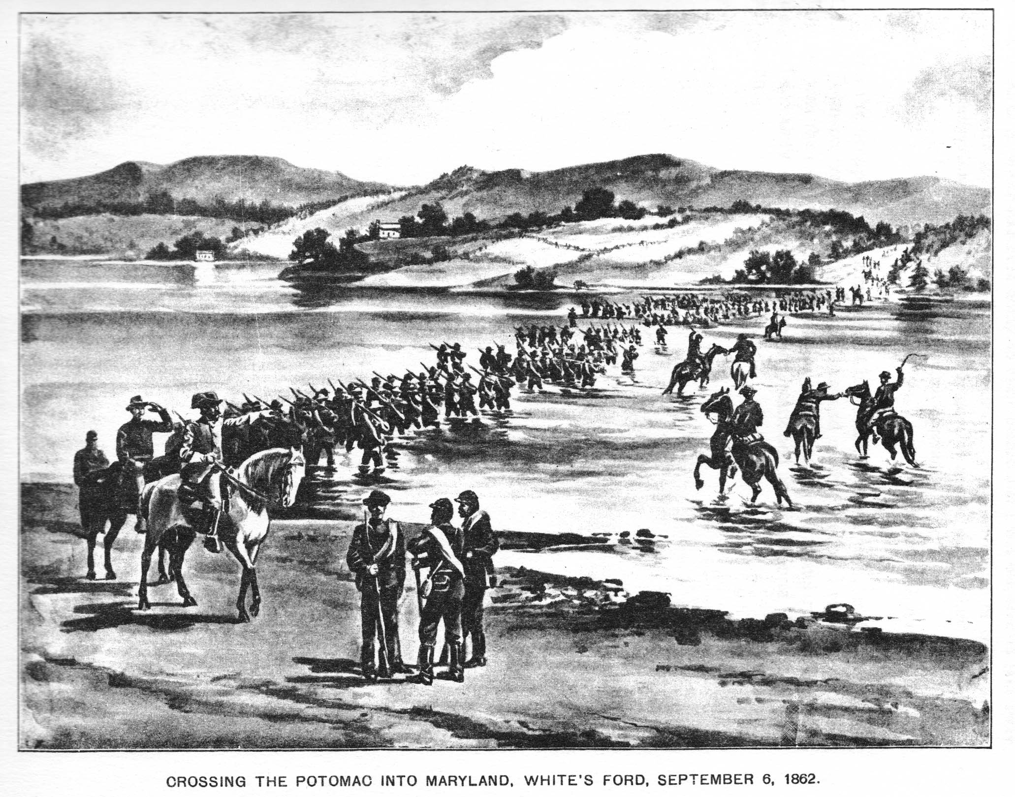 Crossing the Potomac at White's Ford into Maryland 6 Sept1862